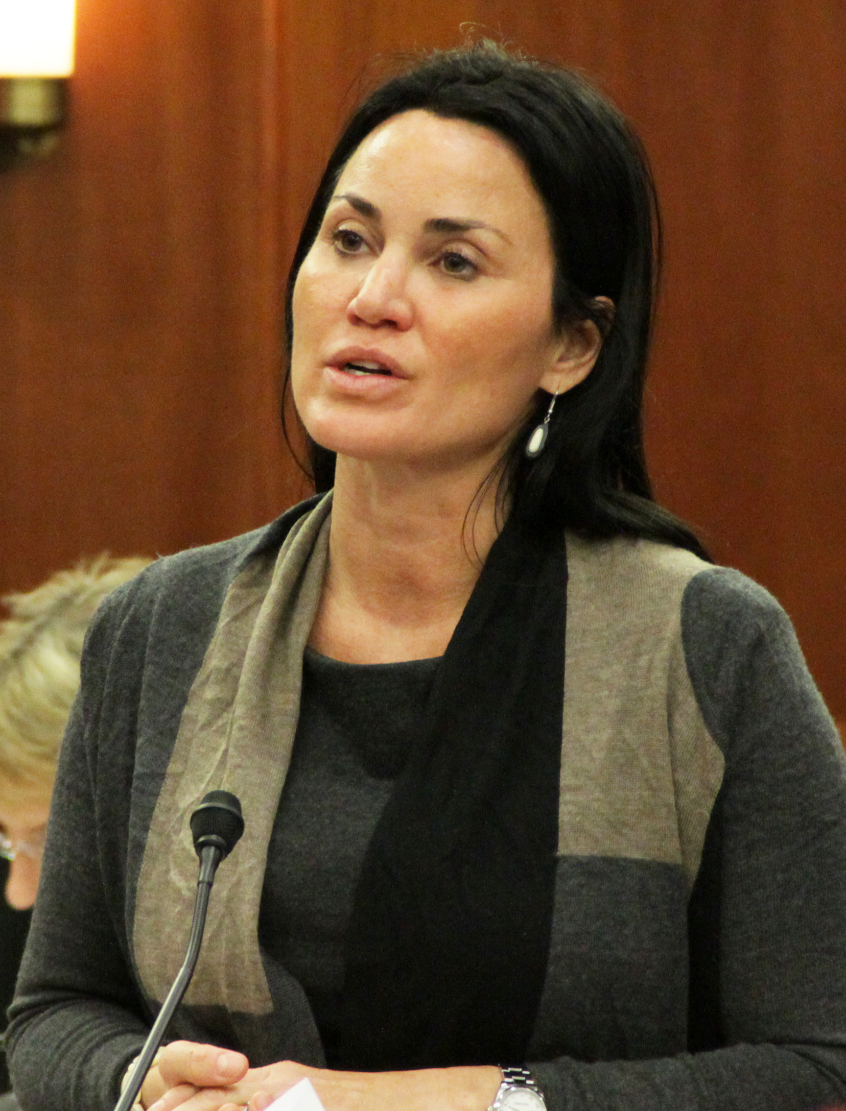 This is a photo of Senator Lesil McGuire.13810940223_76b97928df_o